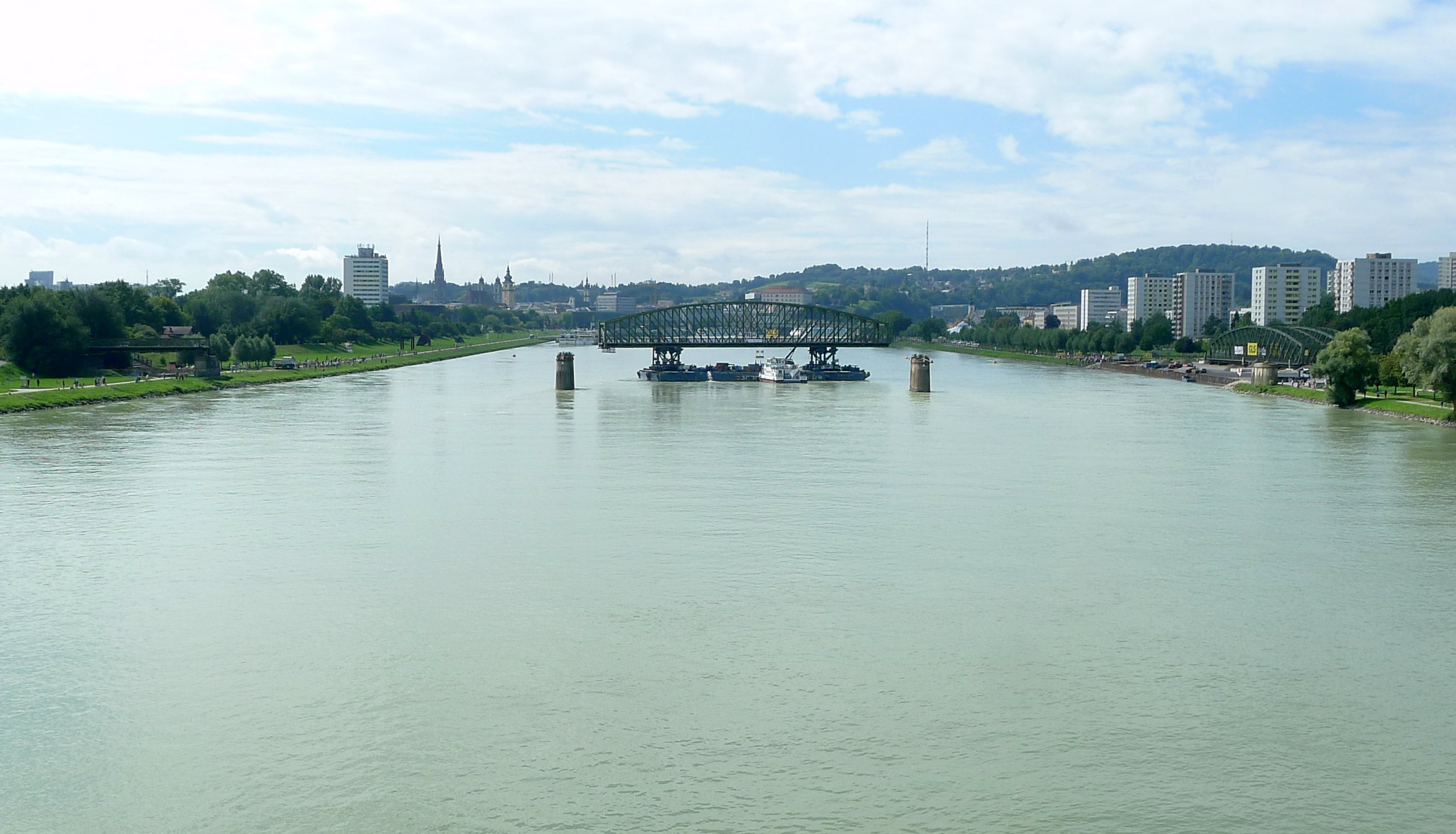 Demolition of Linz Railway Bridge- last segment